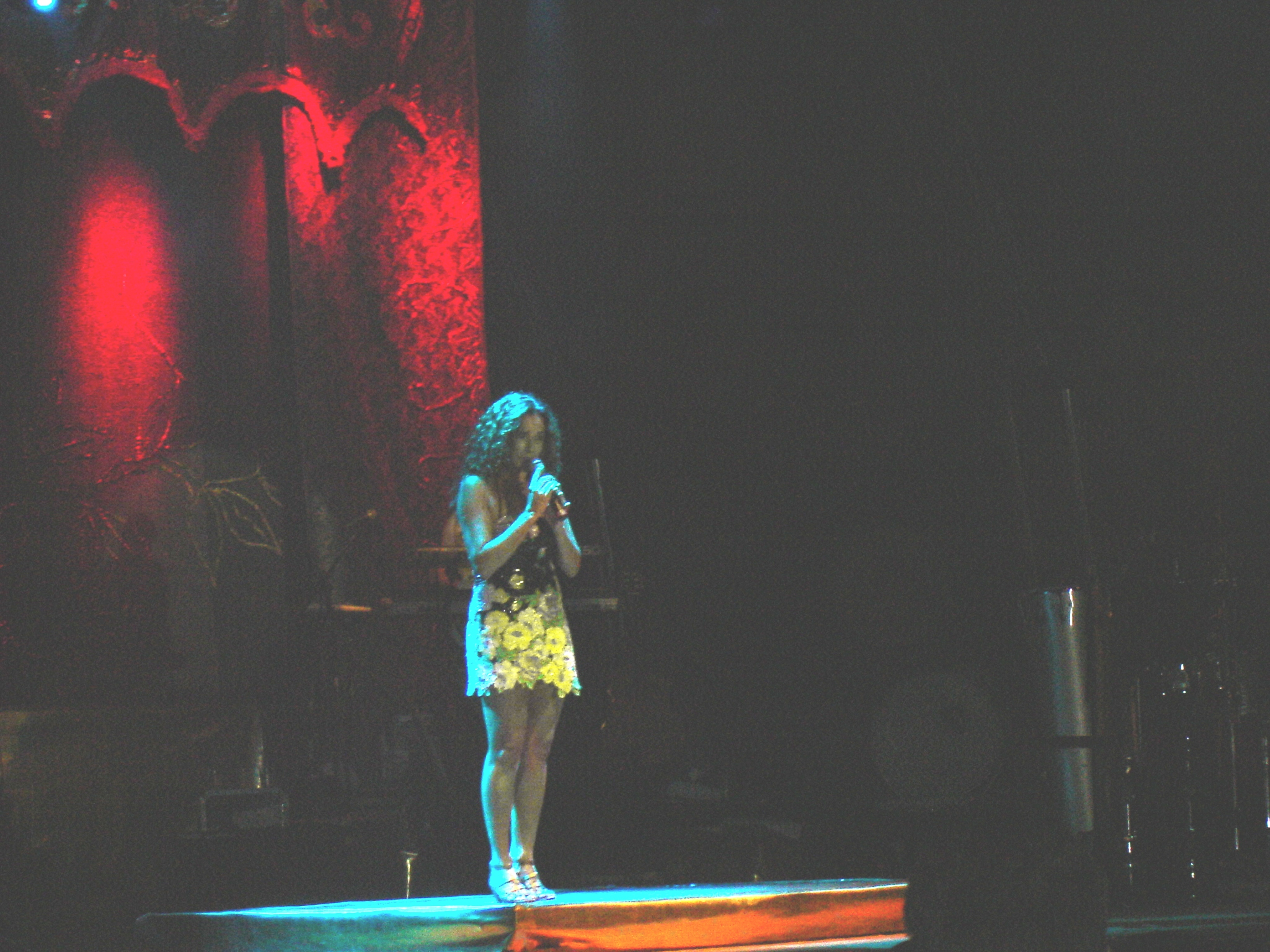 Brazilian axé singer Daniela Mercury performing in Goiânia at the inauguration of Parque Flamboyant.